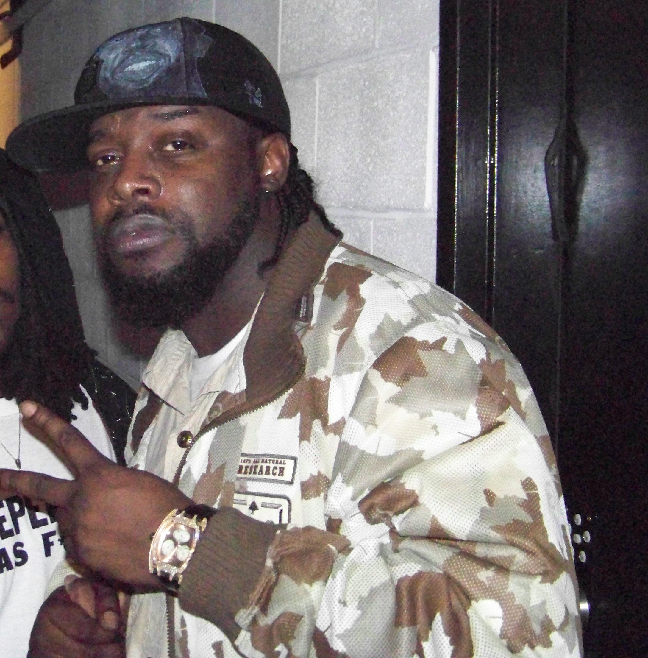 Rapper Guilty Simpson, cropped from original image.